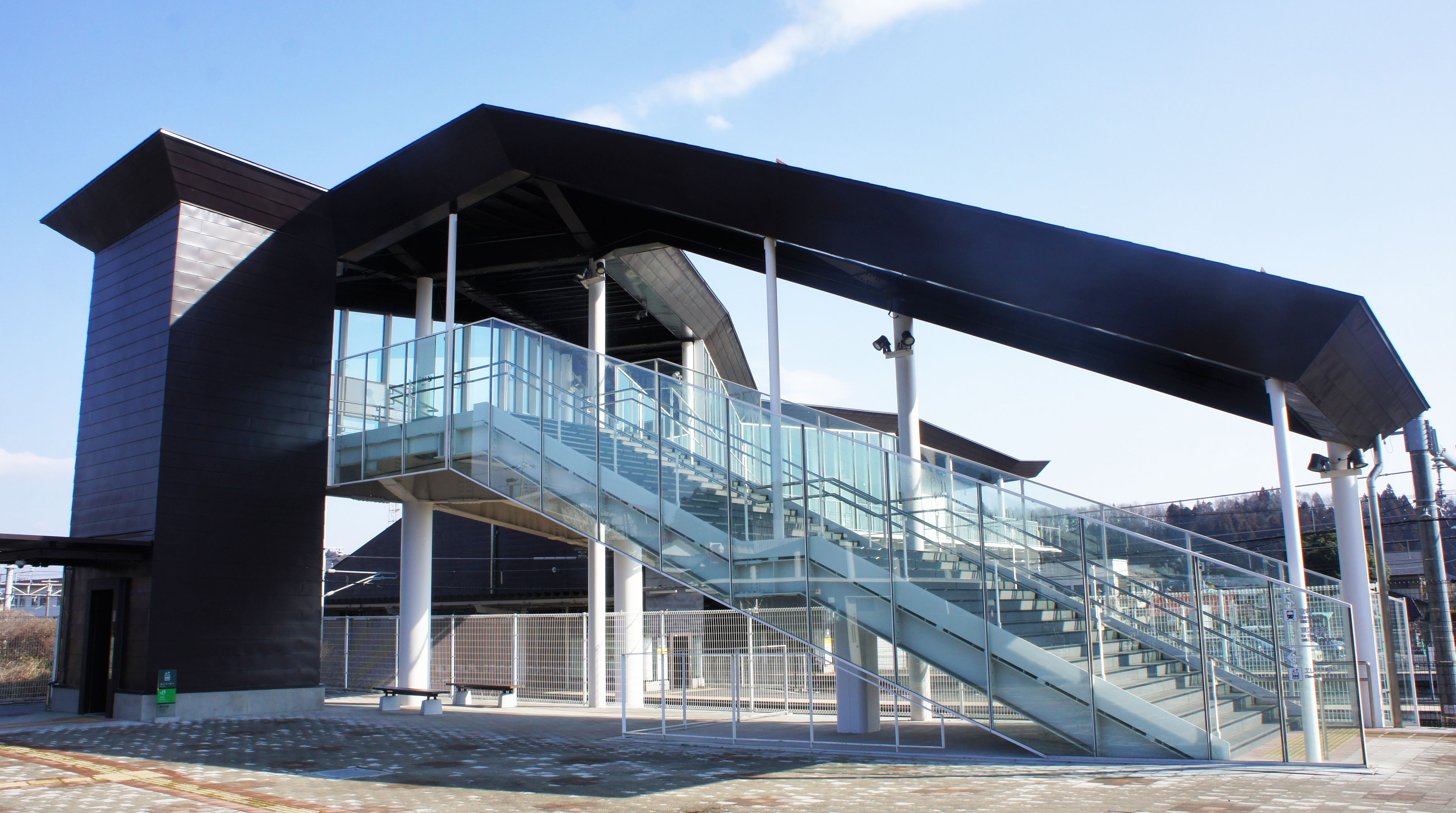 West Exit of JR Tohoku-Main-Line (Utsunomiya-Line) Kataoka Station Sony NEX-3